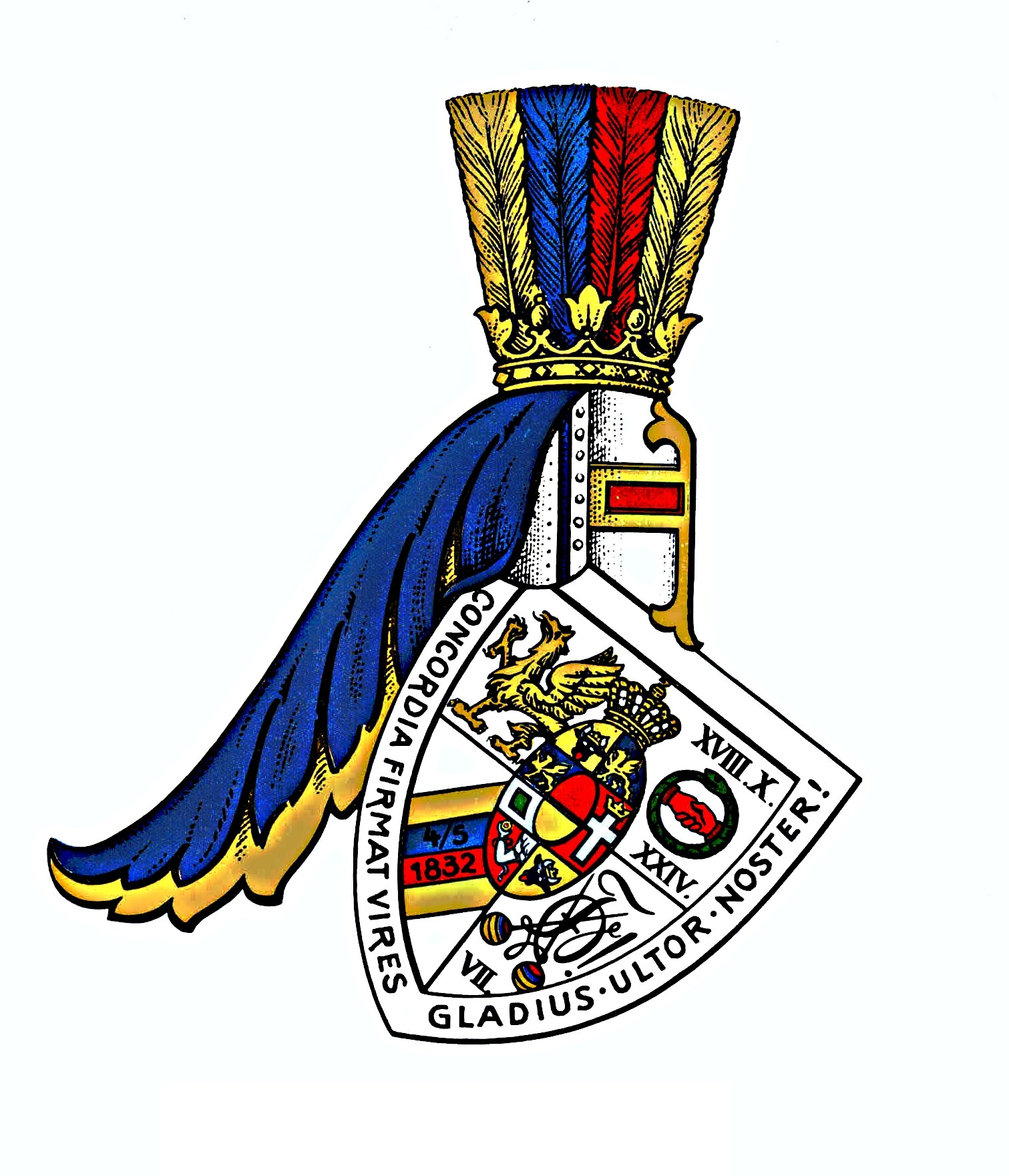 Wappen des Corps Vandalia Rostock